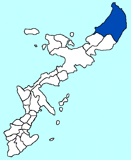 The location of Kunigami Village in Okinawa.